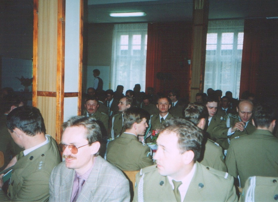 Polish border guards in Racibórz.